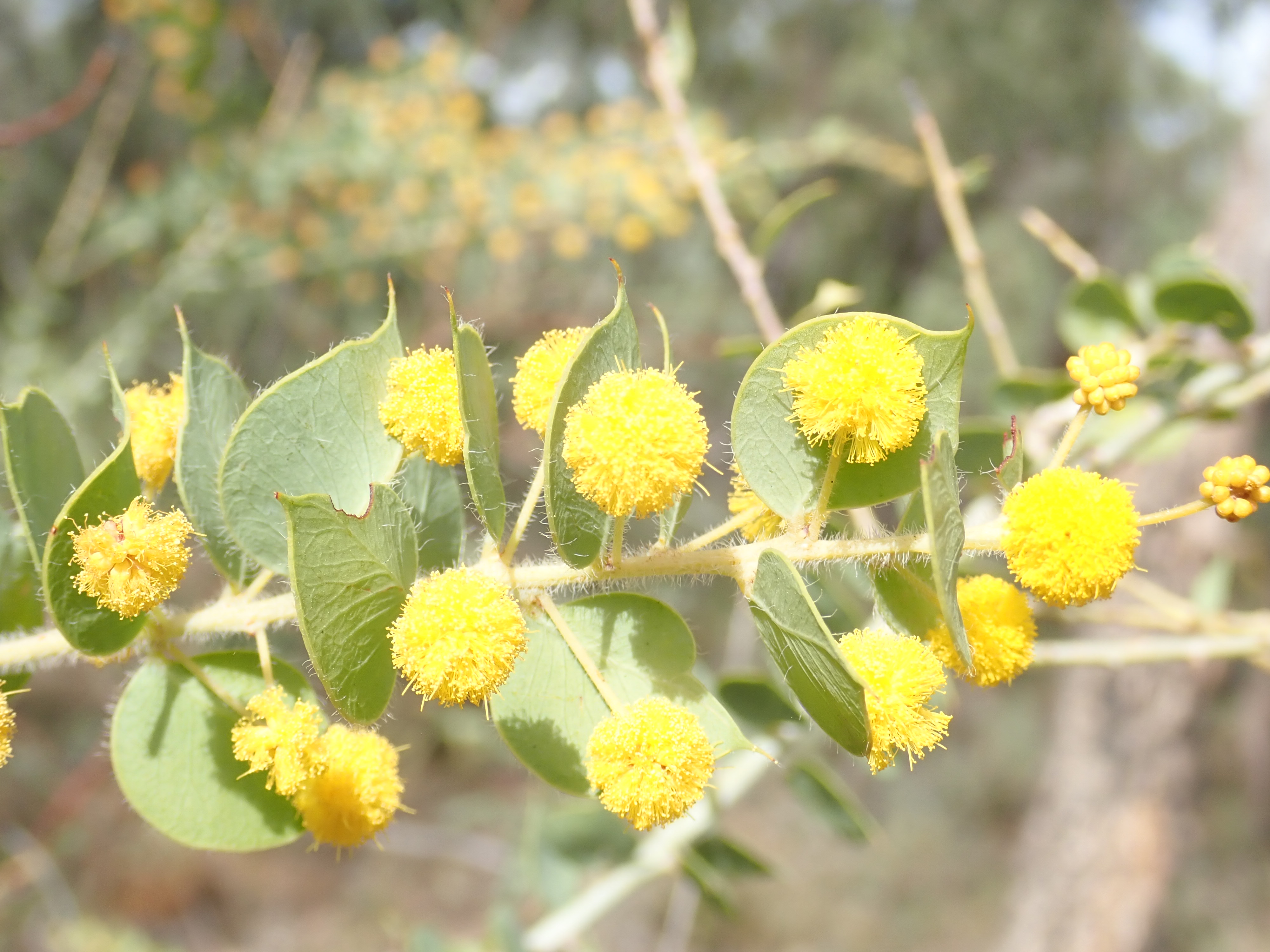 Acacia sertiformis, Sandstone Caves Walking Track, Pilliga Nature Reserve